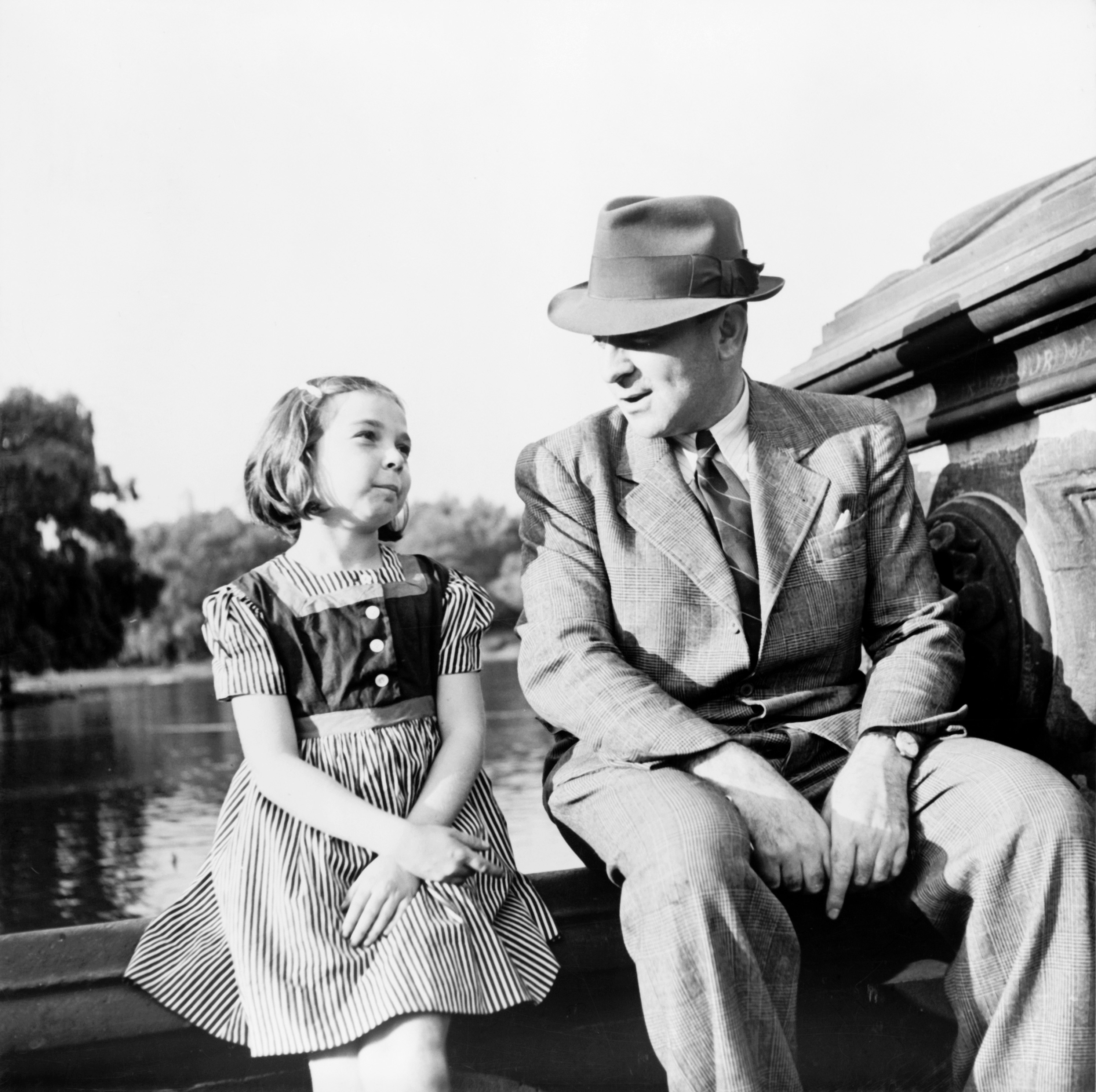 New York, New York. Dr. Winn [or Wynn], a Czech-American, telling Janet a tall story in Central Park.